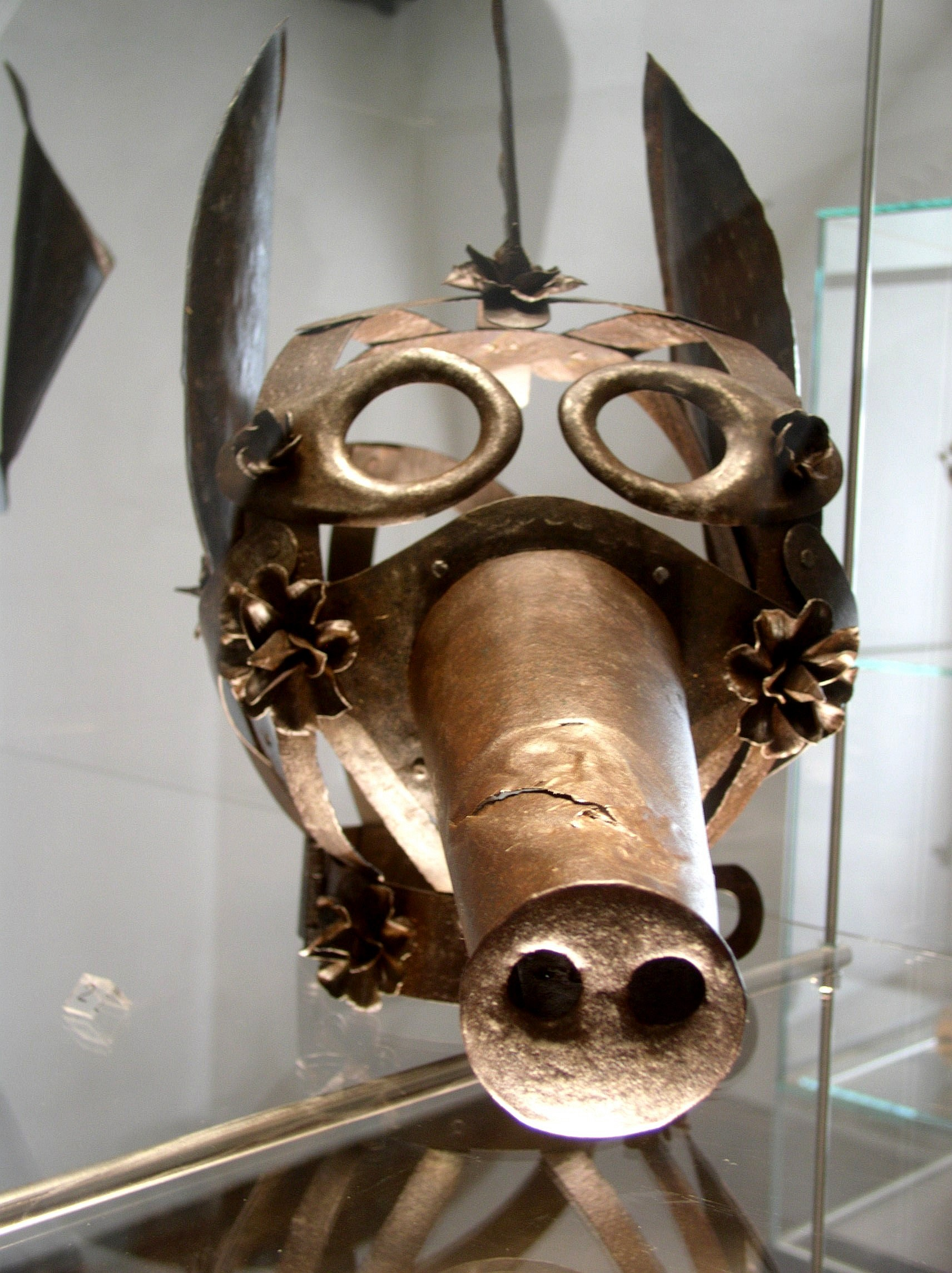 A medieval "schandmaske", or mask of shame, in the Fortress Museum, Salzburg, Austria